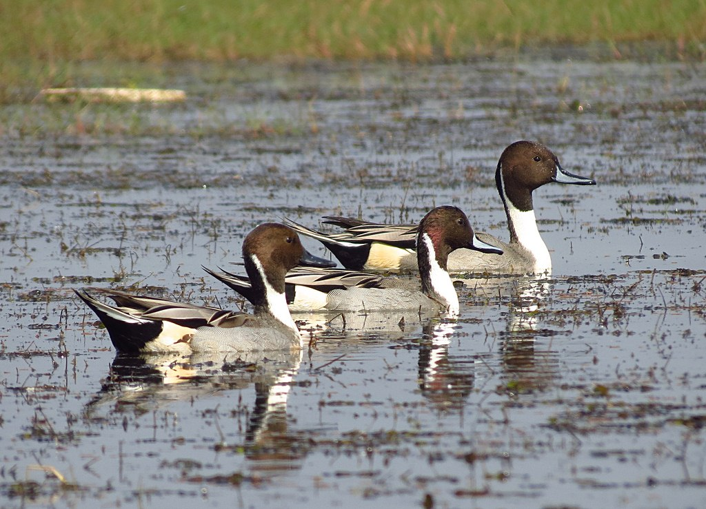 At Mangalajodi, Odisha, India on 29-12-2012 Nature, fauna, birds of Odisha (previously Orissa), India